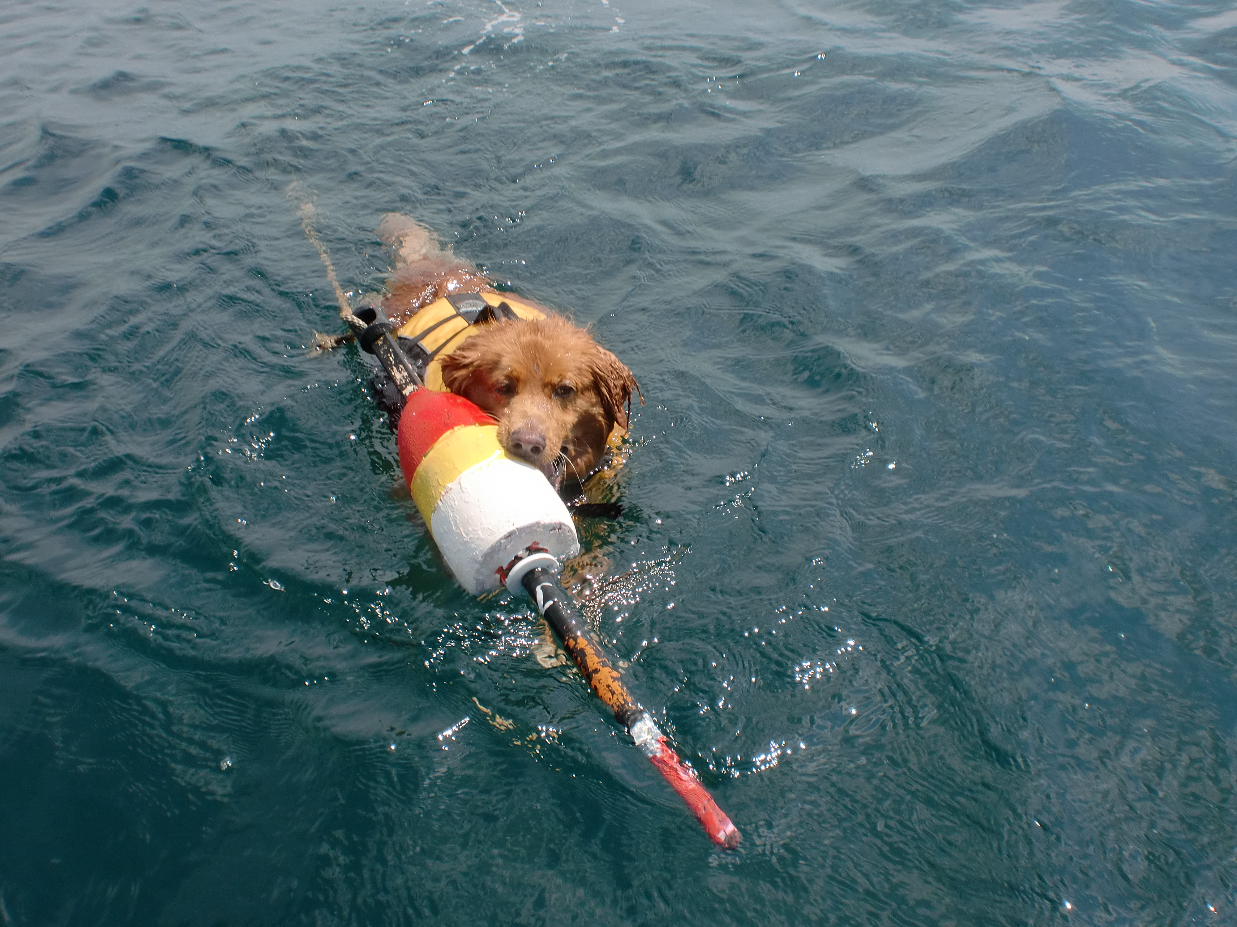 Dog, Massachusetts. Lived to 16 years old. Commands Known: Sit, Lay-down, Paw, Other hand, Shake (after swimming), Speak, Rollover, Look at me, Jump, Leave it, Wait/Stay, Heel, Walk, Run/quicker, Find it (find treat), Swim, Dig, Spin around, Other way (circle around the other way), No barking, Whine, Bring, Back up, Kisses, Do your business, Boat, Bath, Cape Cod, Weston (which house did she want to go to... and would go in car if wanted to come. Also if wanted to go on boat would jump in car. With bath would walk upstairs to shower and wait there till I came up)